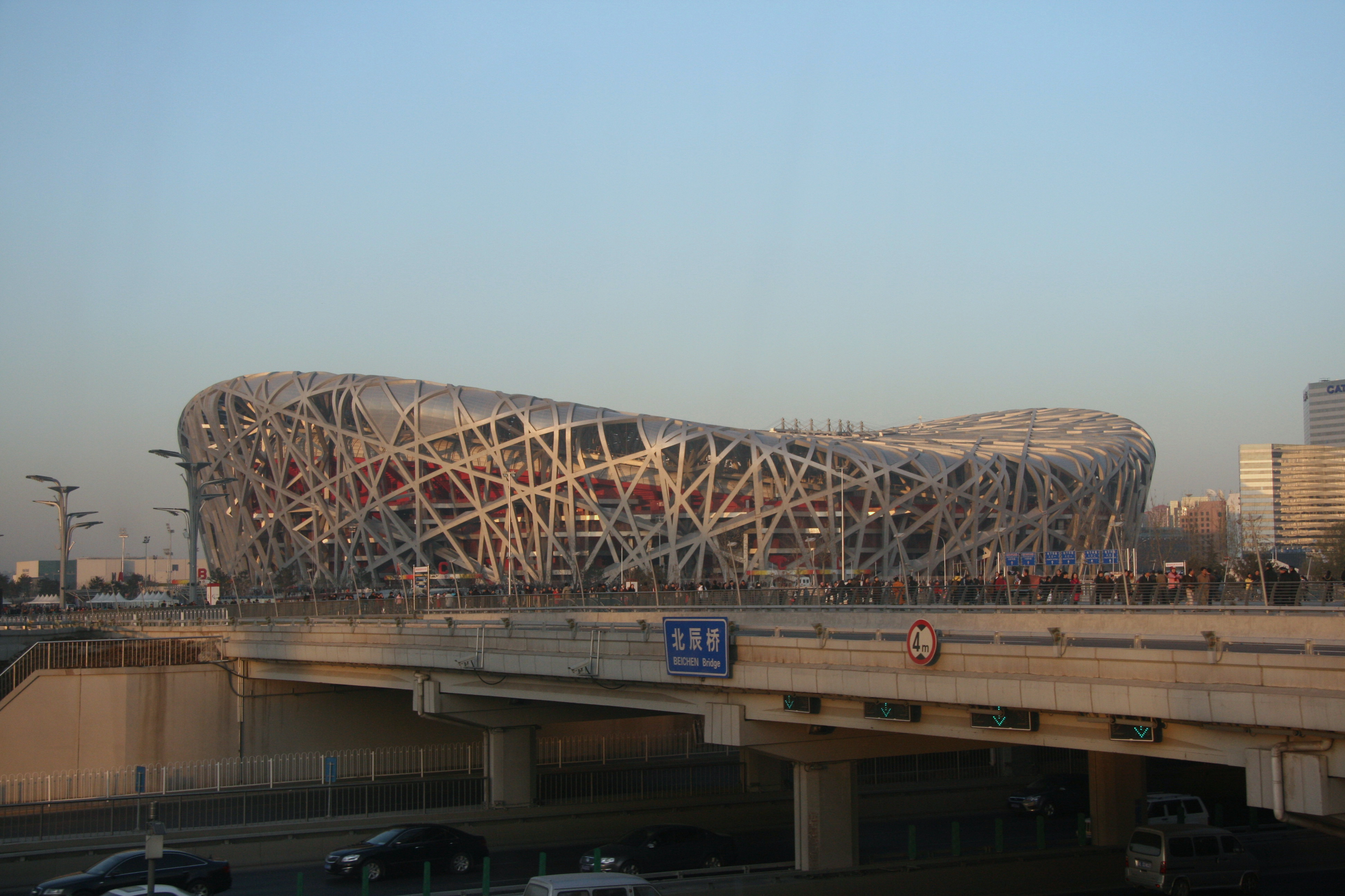 Beijing National Stadium